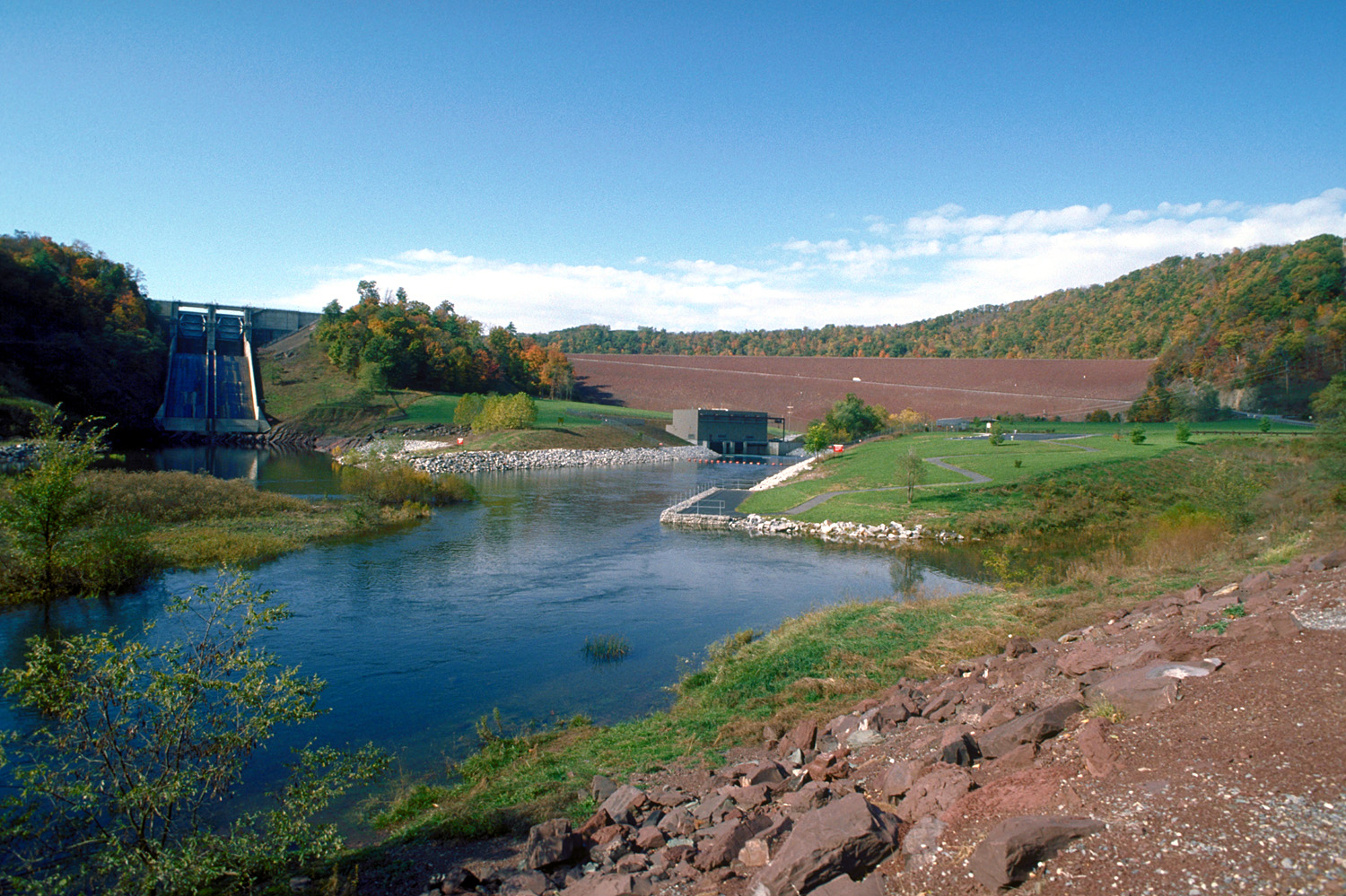 The dam and spillway at Raystown Lake on the Raystown Branch of the Juniata River in Huntingdon County, Pennsylvania, USA. The dam was constructed in 1978 by the U.S. Army Corps of Engineers for flood control and hydroelectric power generation.